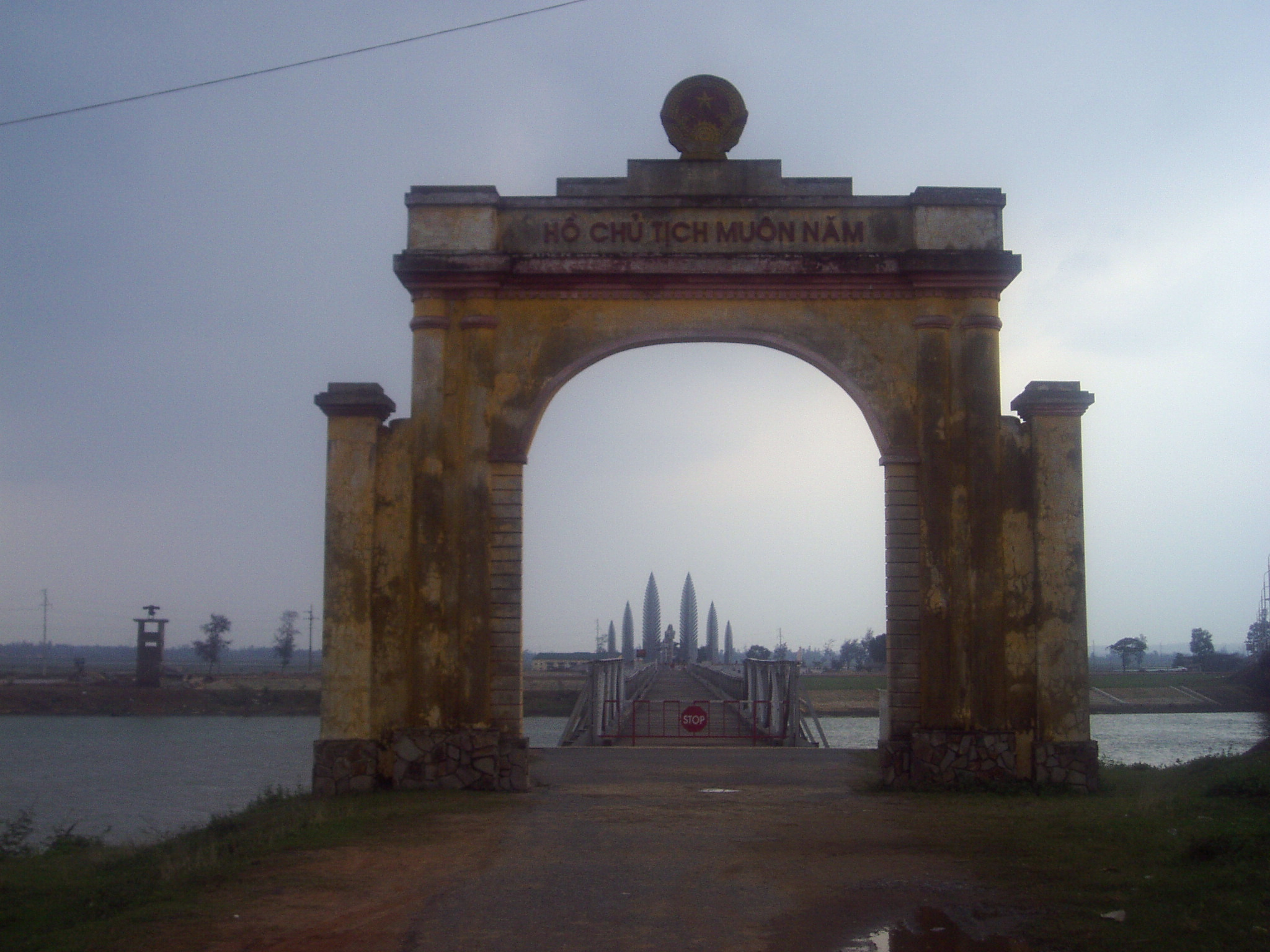 Photo taken of the Vietnamese demilitarised zone from north of the Ben Hai River at the Route 1 bridge crossing. To the left is a recreated South Vietnamese guard tower, and through the arch in the distance, the six ascending spires are a newly-built monument. The inscription says "Long live President Ho!"